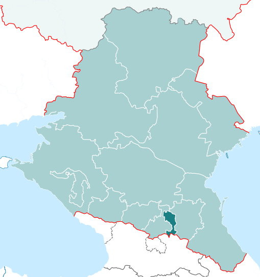 Locator map of Republic of Ingushetia as part of former Southern Federal District before North Caucasian Federal District was split from it in 2010